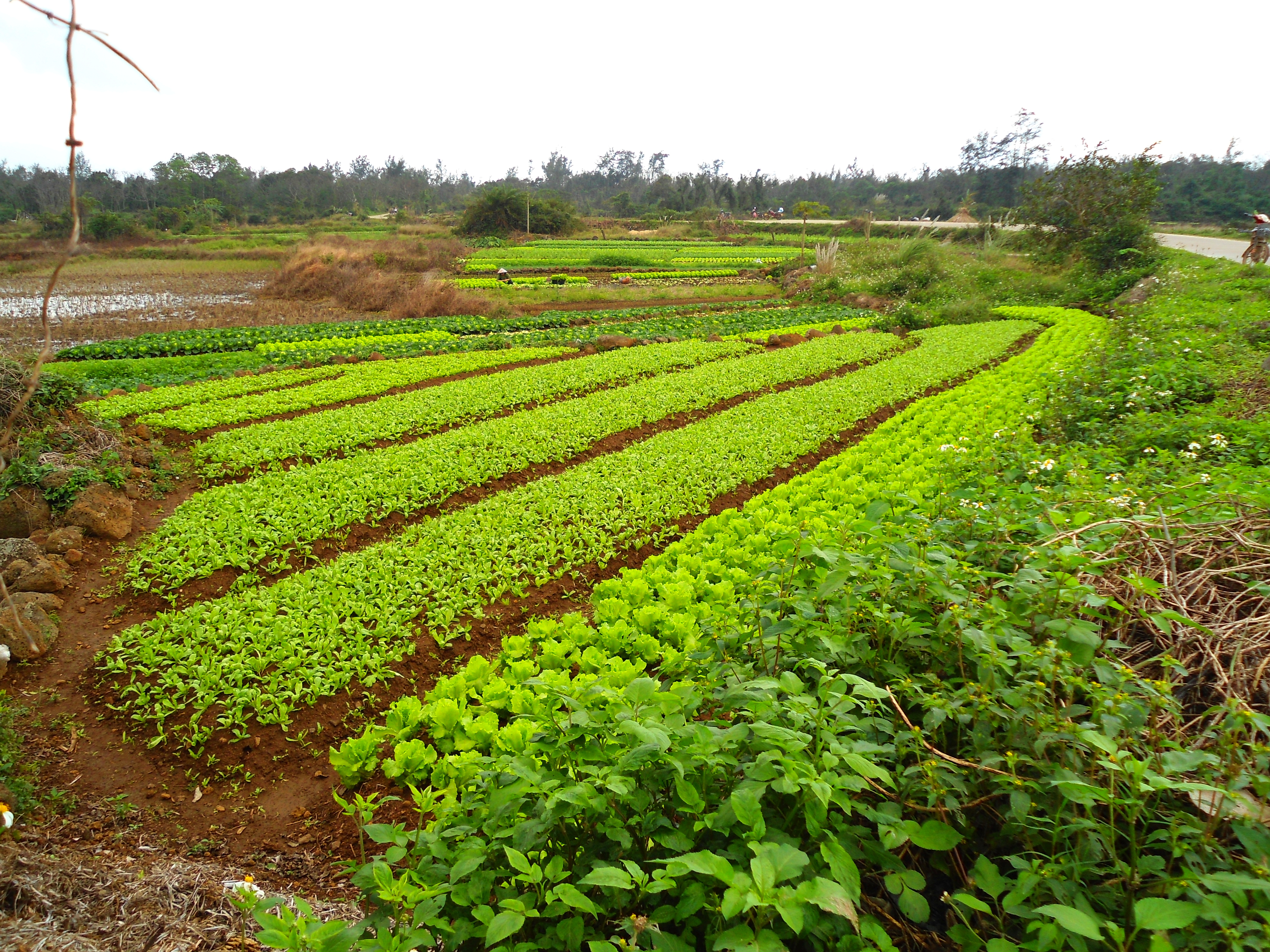 Farm in Hainan Province, People's Republic of China